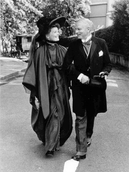 Photo of Katharine Hepburn and Laurence Olivier from the made for television film Love Among the Ruins. The film was shot in the UK for American Broadcasting Company in 1975 and had its first airing on the ABC Network in the same year.